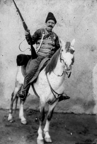 Andranik Ozanian in Western Armenia during the fedayee movement.